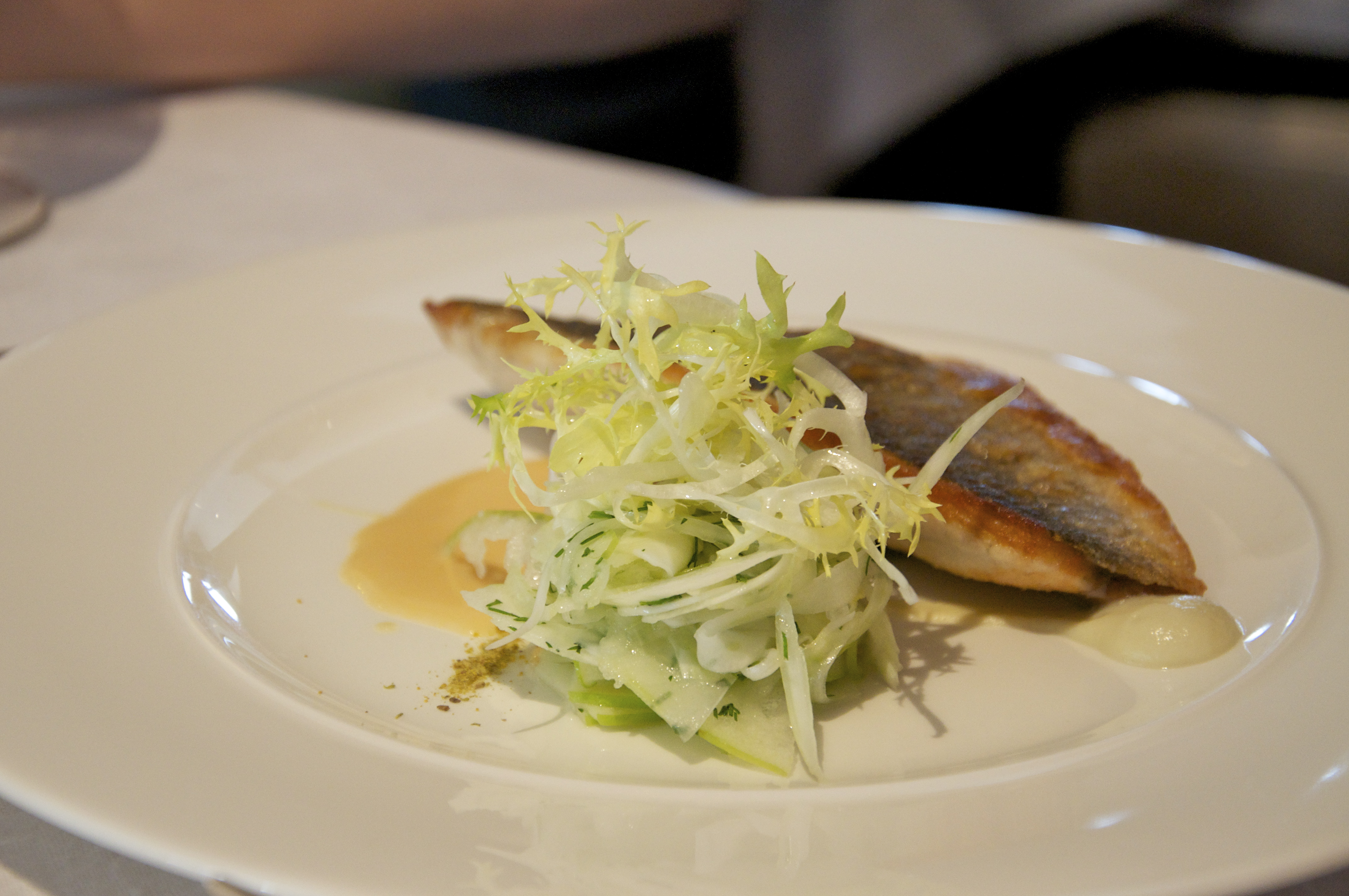 Pan fried sea bream at Gordon Ramsay's Petrus restaurant in London, photographed in August 2011.